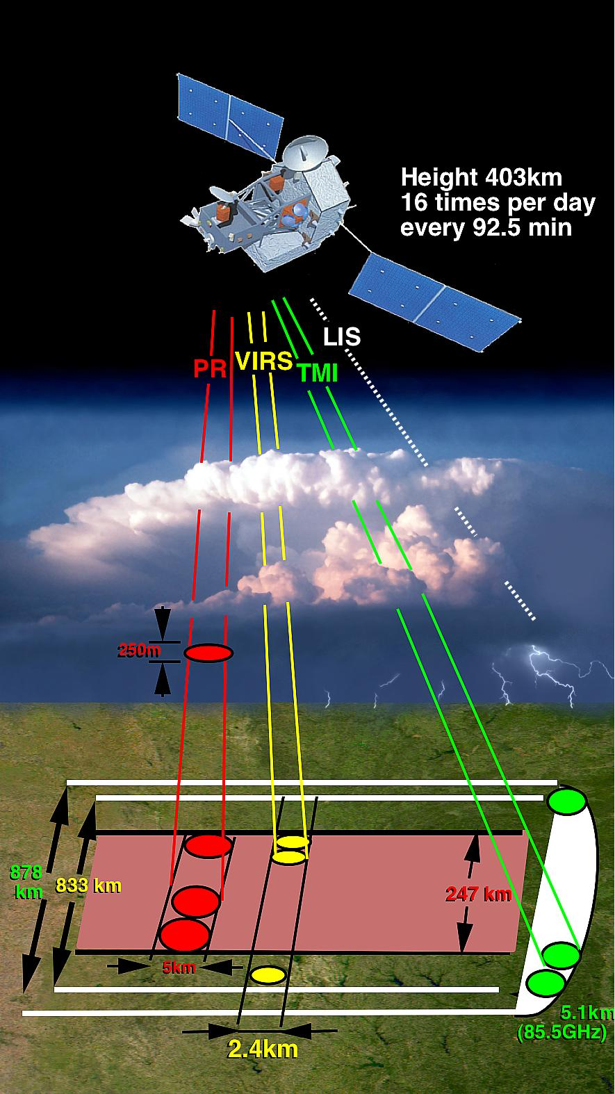 Diagram of the TRMM instrument's measurment path.